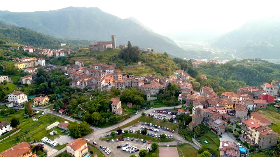 Corsagna